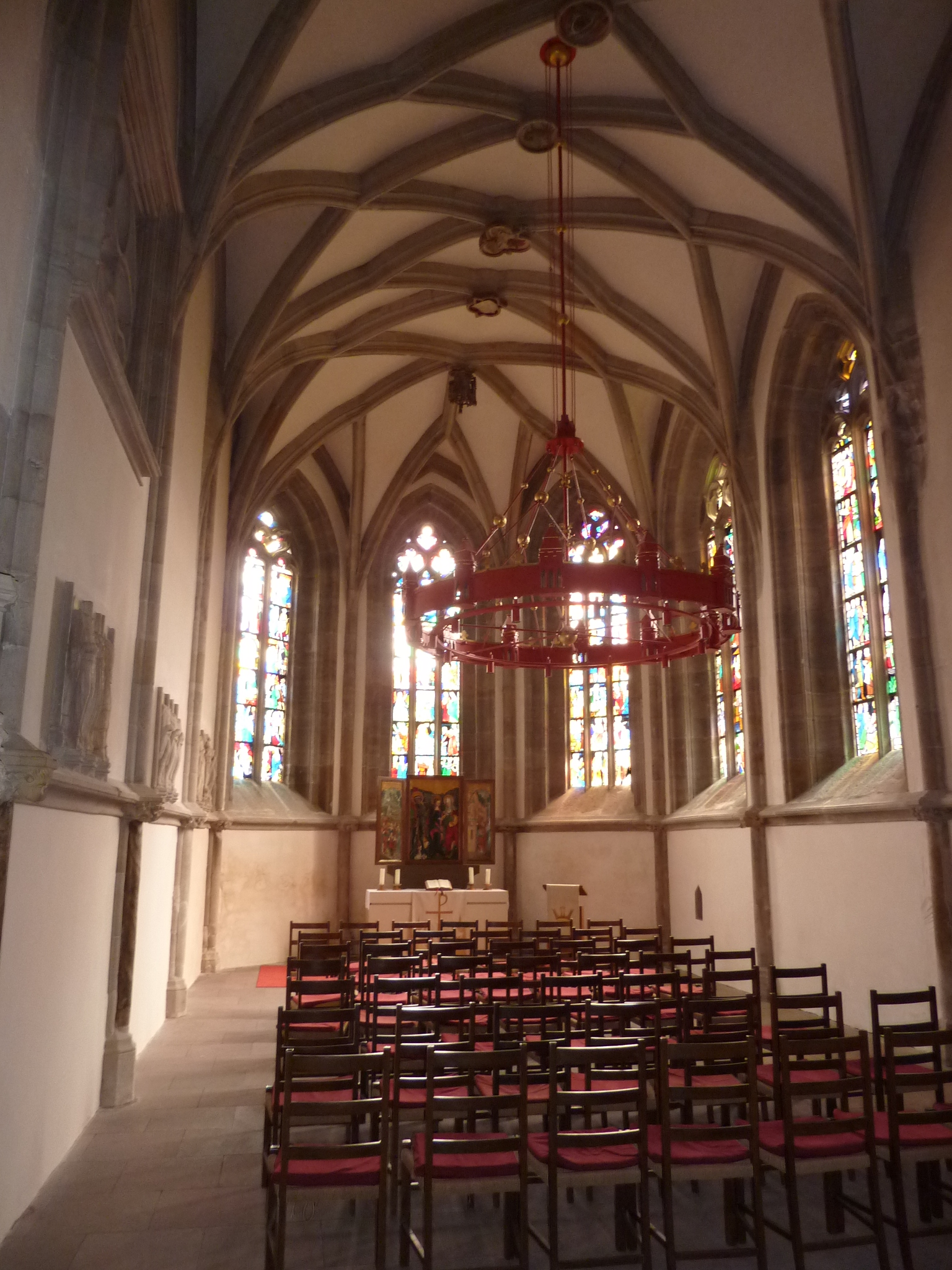 Cloister of Magdeburg Cathedral